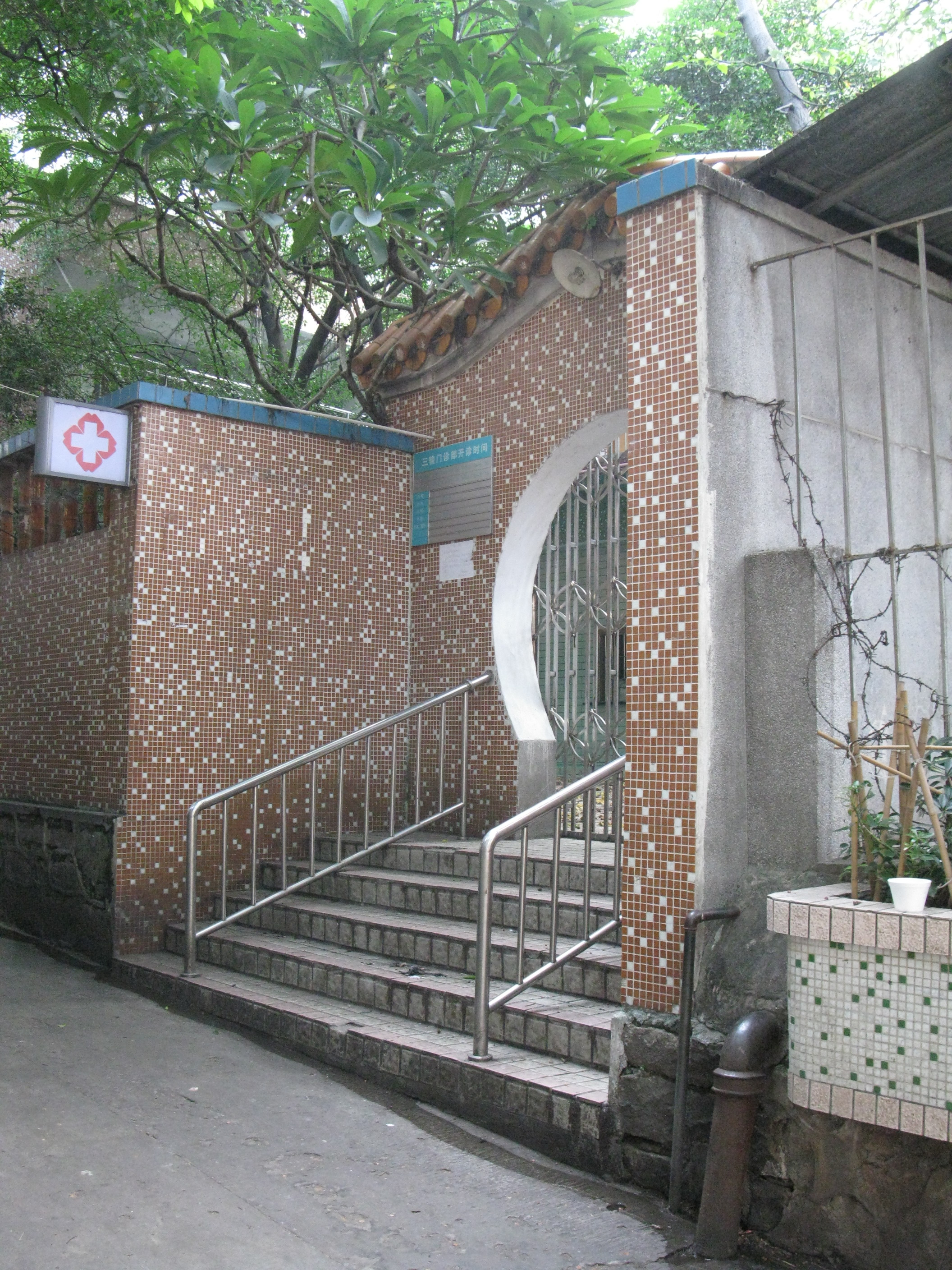 local medical service station, Shipai Village, Guangzhou, China